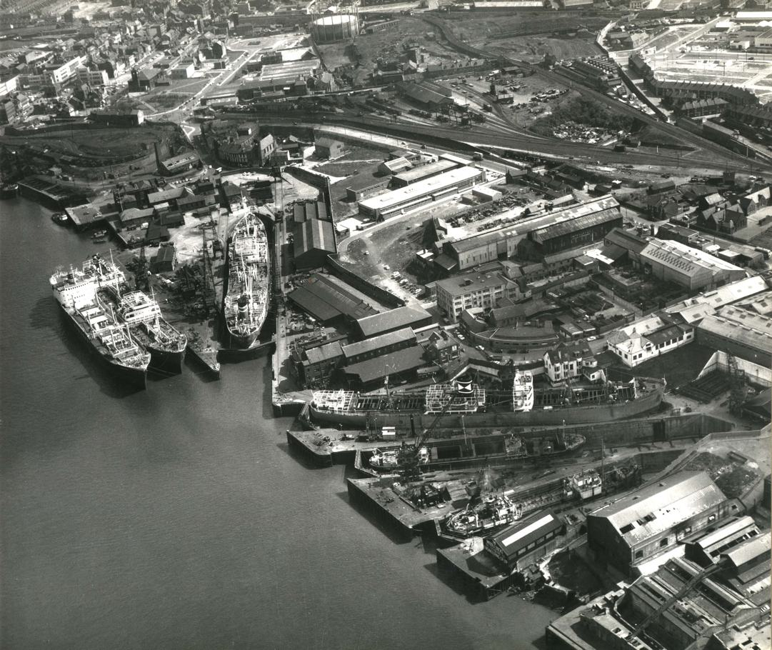 John Readhead and Sons, South Shields 6th May 1963. This shot shows the graving docks and slipways. The company celebrated its centenary in 1965 and was still employing around 1,000 people. New orders for a fleet of cargo express liners for the Cunard Steam Ship Company meant a healthy future ahead. Running anti-clockwise the ships shown are No.1 Dock, Shell Supplies; No.2 Dock, Wandsworth; No.3 Dock Ambesta; No. 4 Dock, British Oak; East Quay, British General and Sunriver. Reference: TWAS: DT.TUR.7.3 (Copyright) We're happy for you to share this digital image within the spirit of The Commons. Please cite 'Tyne & Wear Archives & Museums' when reusing. Certain restrictions on high quality reproductions and commercial use of the original physical version apply though; if you're unsure please . To purchase a hi-res copy please quoting the title and reference number